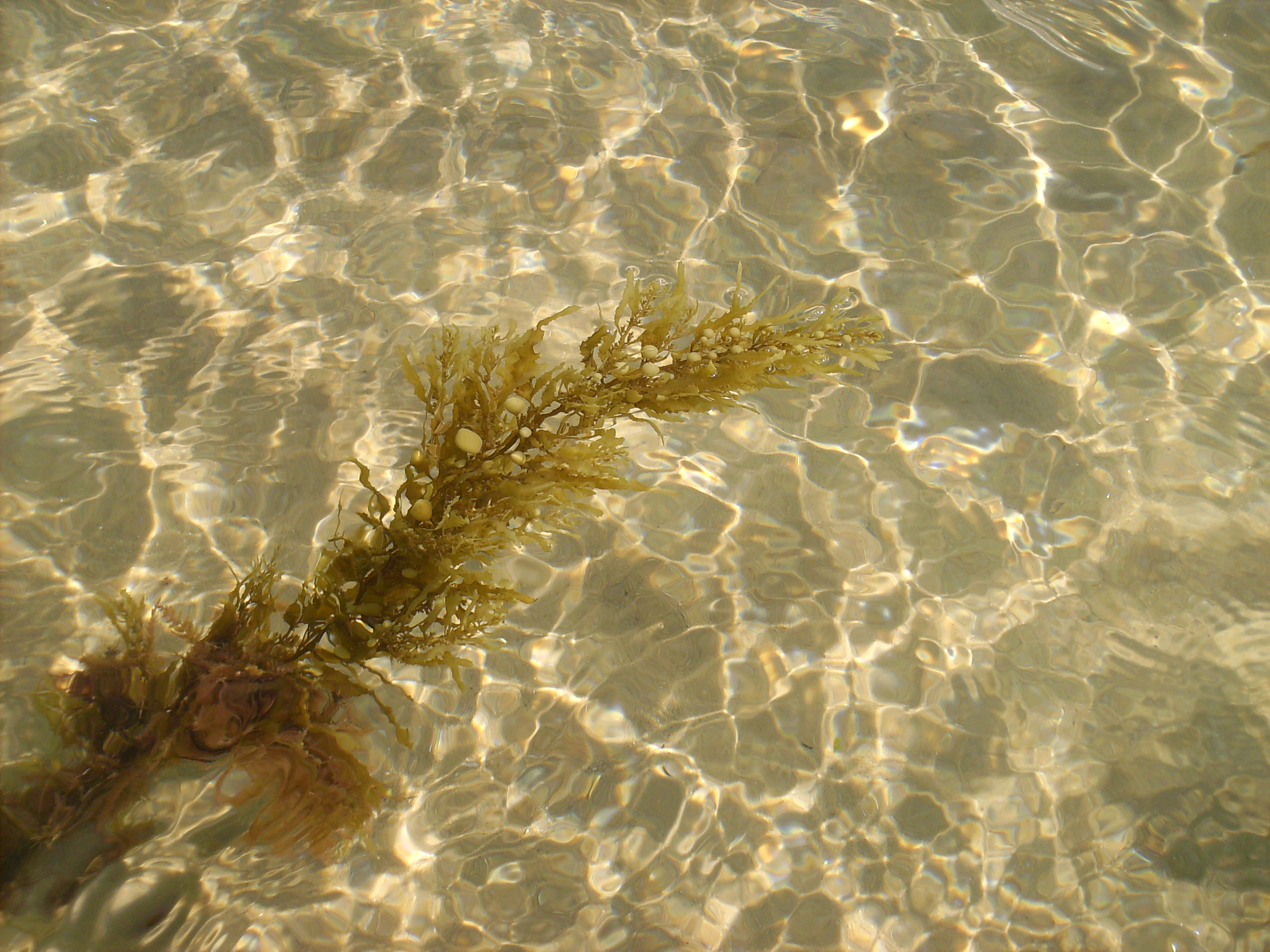 Japweed, or Japanese Wireweed (Sargassum muticum) floating freely on water. This species is highly invasive: it remains alive after being detached from rocks (for instance after a storm), and may reattach itself somewhere else after being carried away by water currents. Picture taken on Baleal, Peniche, Portugal.